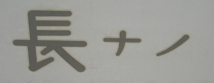 Symbol of Nagano General Rolling Stock Center, marked on its rolling stock